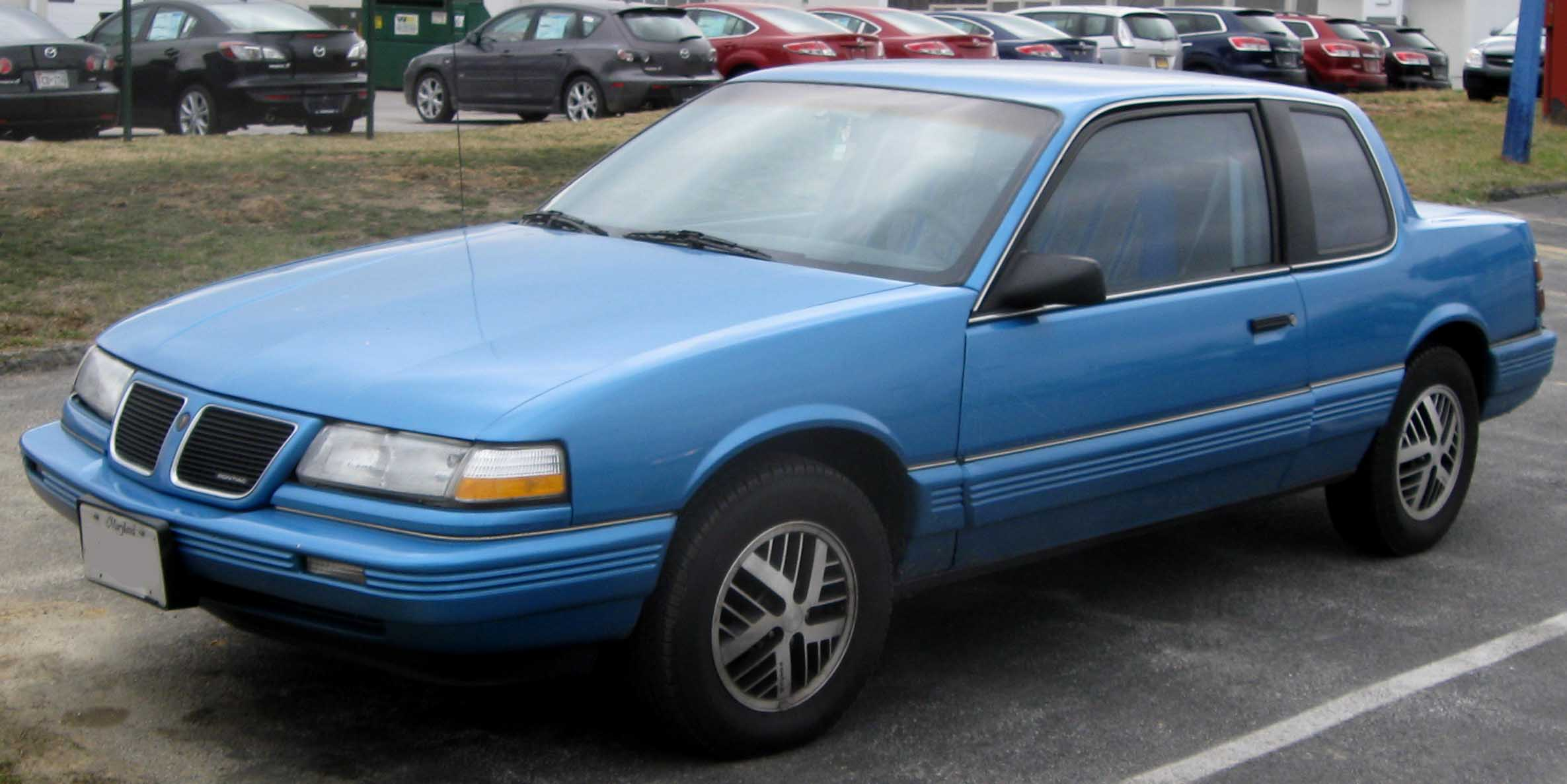 1989-1991 Pontiac Grand Am photographed in Silver Spring, Maryland, USA.